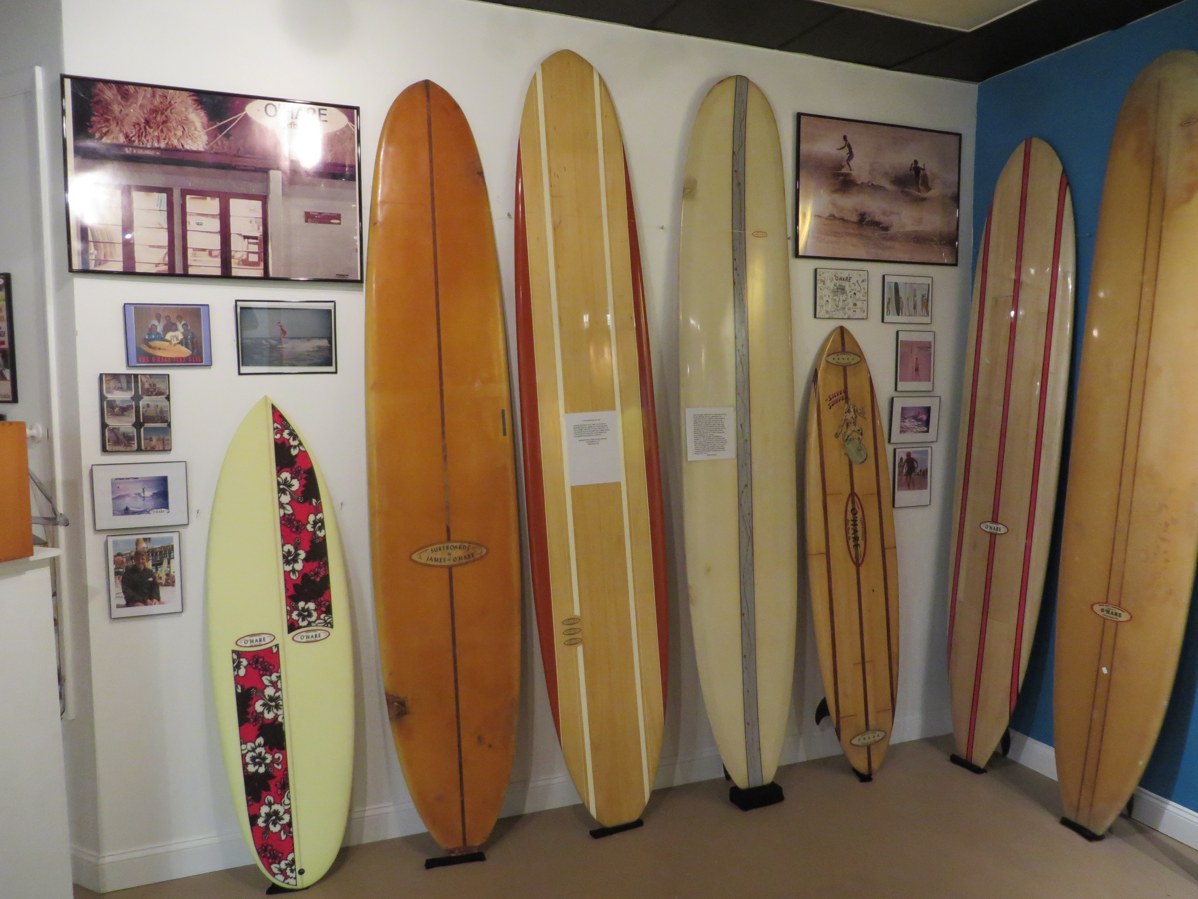 The Cocoa Beach Surf Museum inside the Ron Jon Surf Shop, 4275 North Atlantic Avenue, Cocoa Beach, Florida.